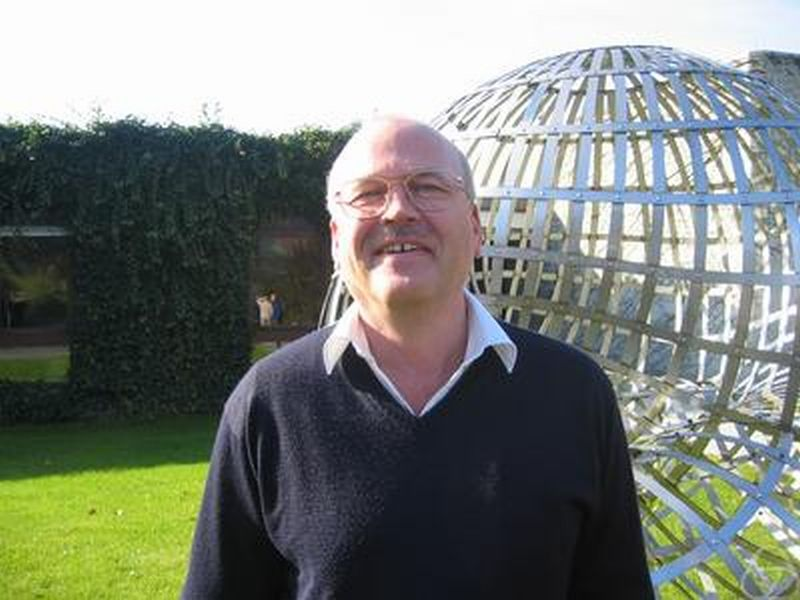 Winfried Kohnen, Oberwolfach 2007